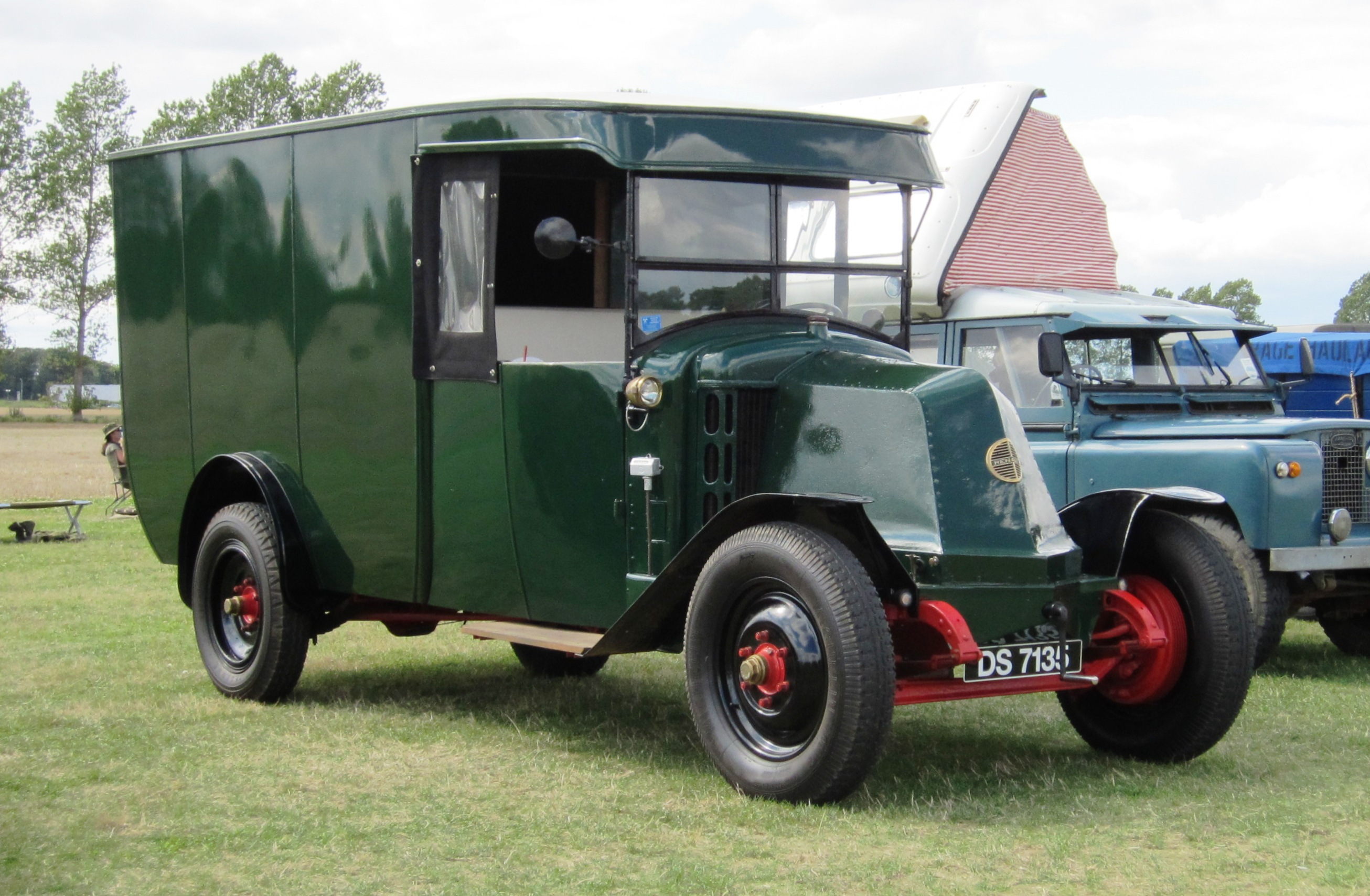 Renault van 1926